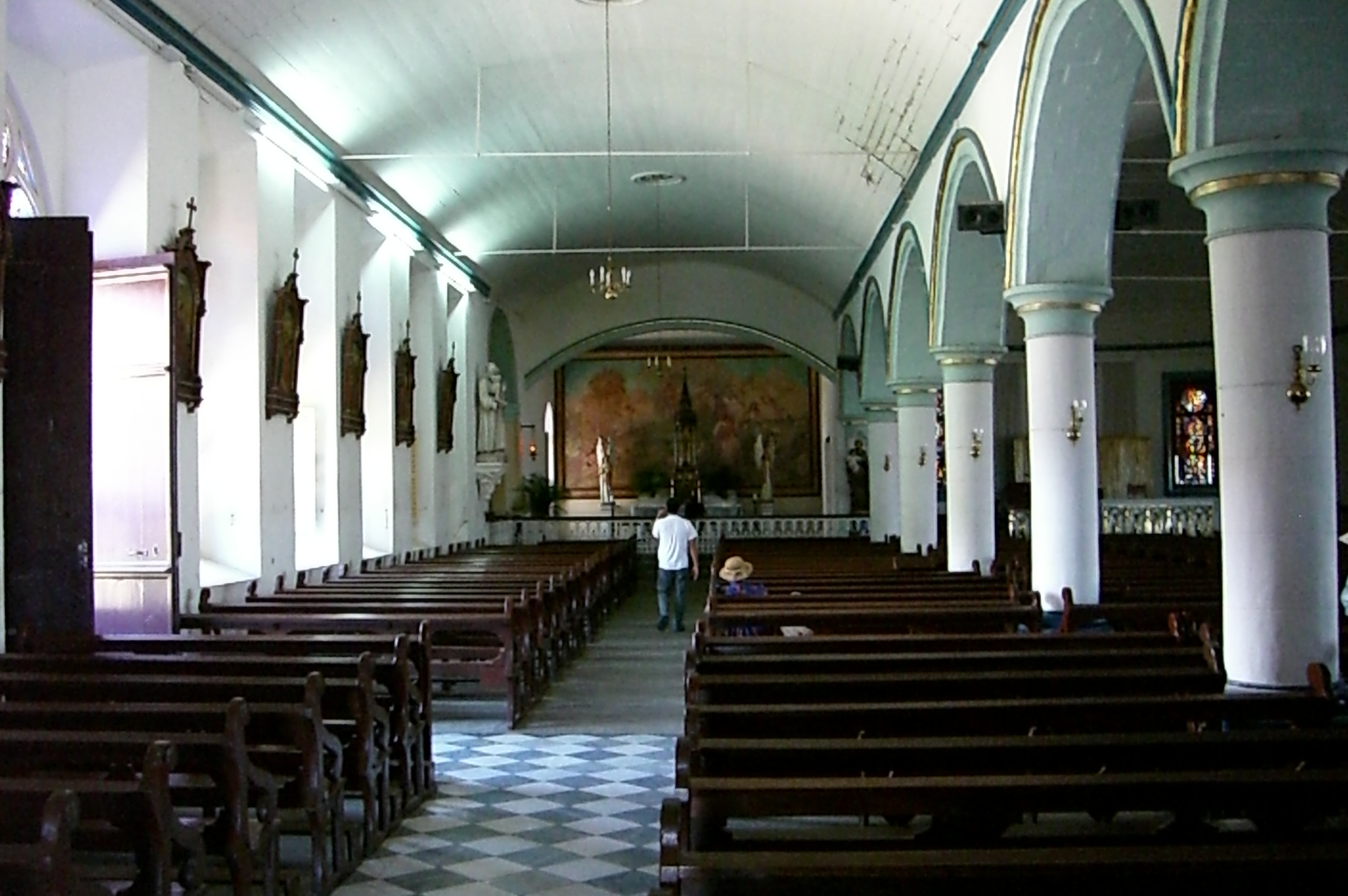 Inside the cathedral / Roseau. Inside the cathedral / Roseau.